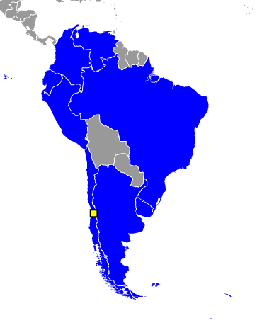 Countries which participated in the 2014 Para South American Games, as listed at the oficial web site.